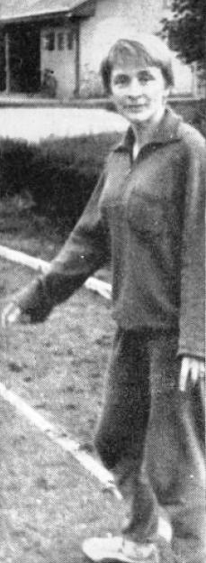 Olga Šikovec (1933-), Slovene athlete